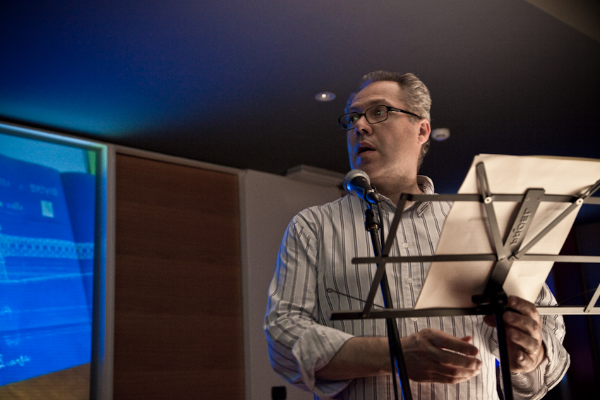 Warburghiana, Concerto sinottico n. 4. Performance and installation composed of a series of 4 videos. Artwork commissioned by Associazione Amici del Museo delle Grigne Onlus, Esino Lario for Vestire i paesaggi and Ecomuseo delle Grigne; artistic director Iolanda Pensa. Archivio Pietro Pensa. Photos by Valeria Vernizzi, Brivio, 9/07/2010. The artwork relies on a documents about streets and communication. In particular it presents the bridge of Brivio. The performance was filmed and used to compose a new series of videos.